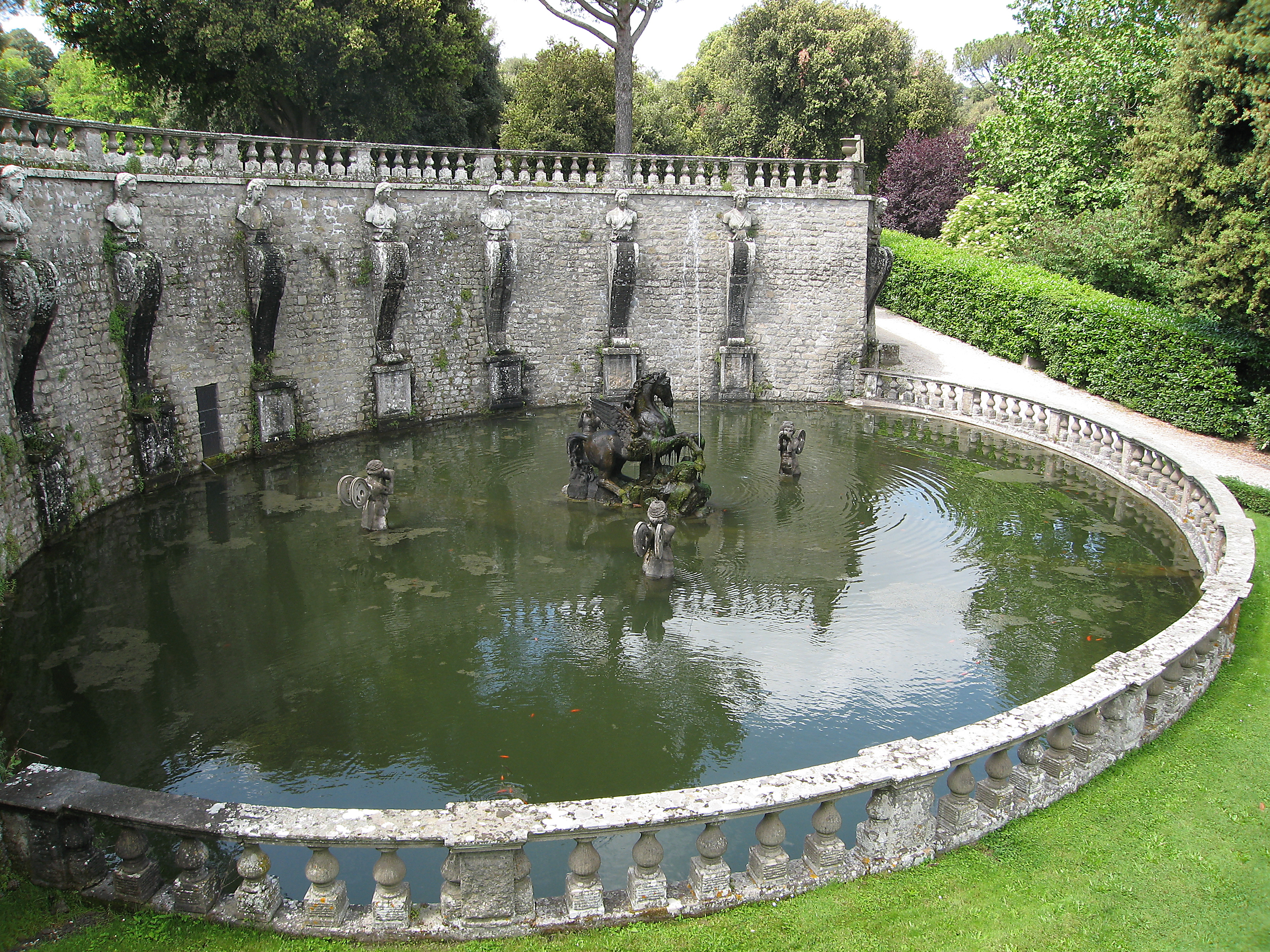 Fountain near an entrance to Villa Lante in Bagnaia, Italy featuring a statue of Pegasus, a flying horse of Greek mythology. Photo was taken in May of 2007 with a Canon S80.